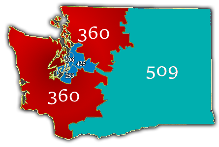 Area code 360 in Washington state.